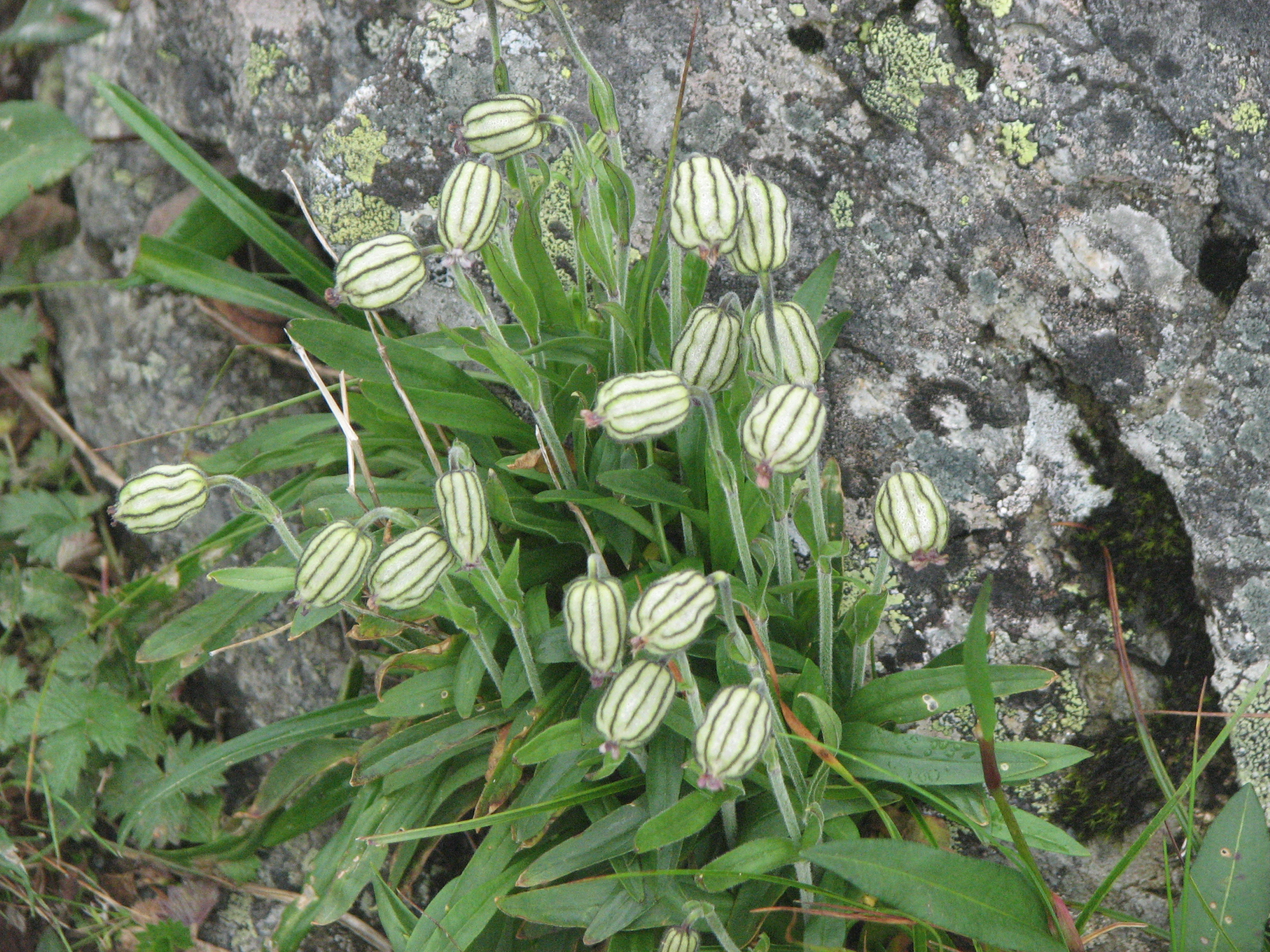 Silene uralensis at Kitadake(Mt. Kitadake) south ridge at Japan.